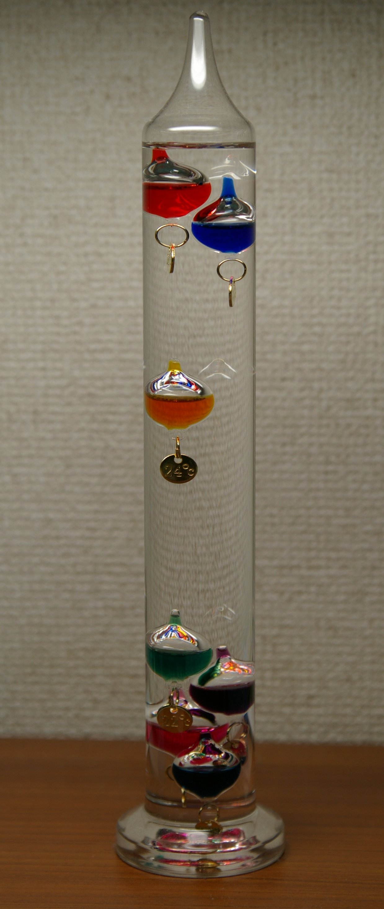 A Galileo Thermometer showing 24 degrees, since the 24 degree bulb is floating in the middle.